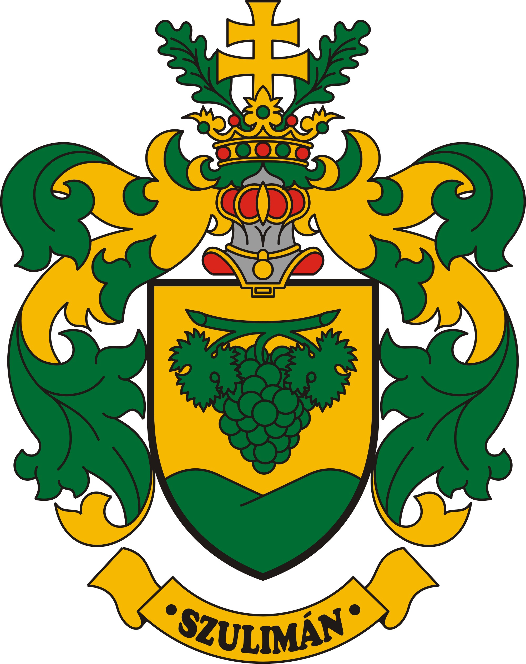 Coat of arms of Szulimán, Hungary